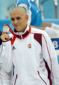 Hungary's Laszlo Cseh, silver medalist, at the National Aquatics Center in Beijing.